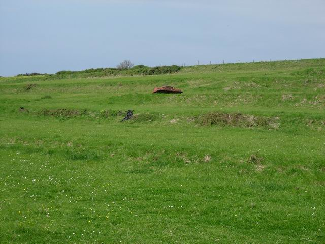 Strip terraces. Evidence of an old field system with the tiers being put in to allow arable farming. The area has been inhabited for a very long time - a nearby Mesolithic site has been dated as 8000-8500 years old.